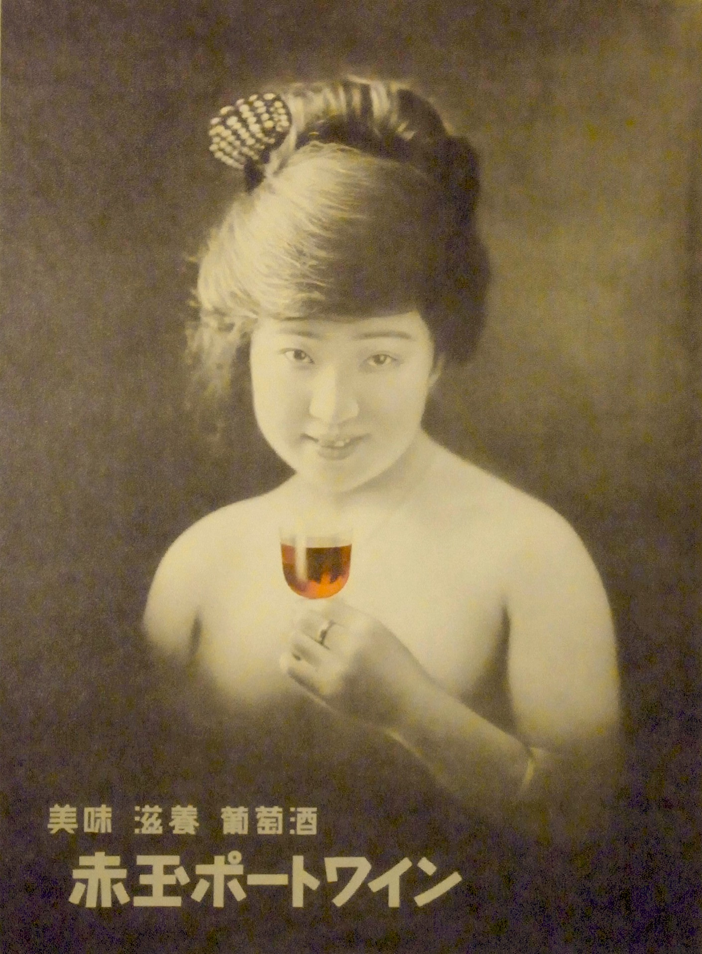 A advertising poster of "Akadama Port Wine” for Suntory Limited. This is the first nude advertising poster in Japan. Published in 1922 (Taisho 11). Directed by KATAOKA, Toshiro; featuring MATSUSHIMA, Emiko.